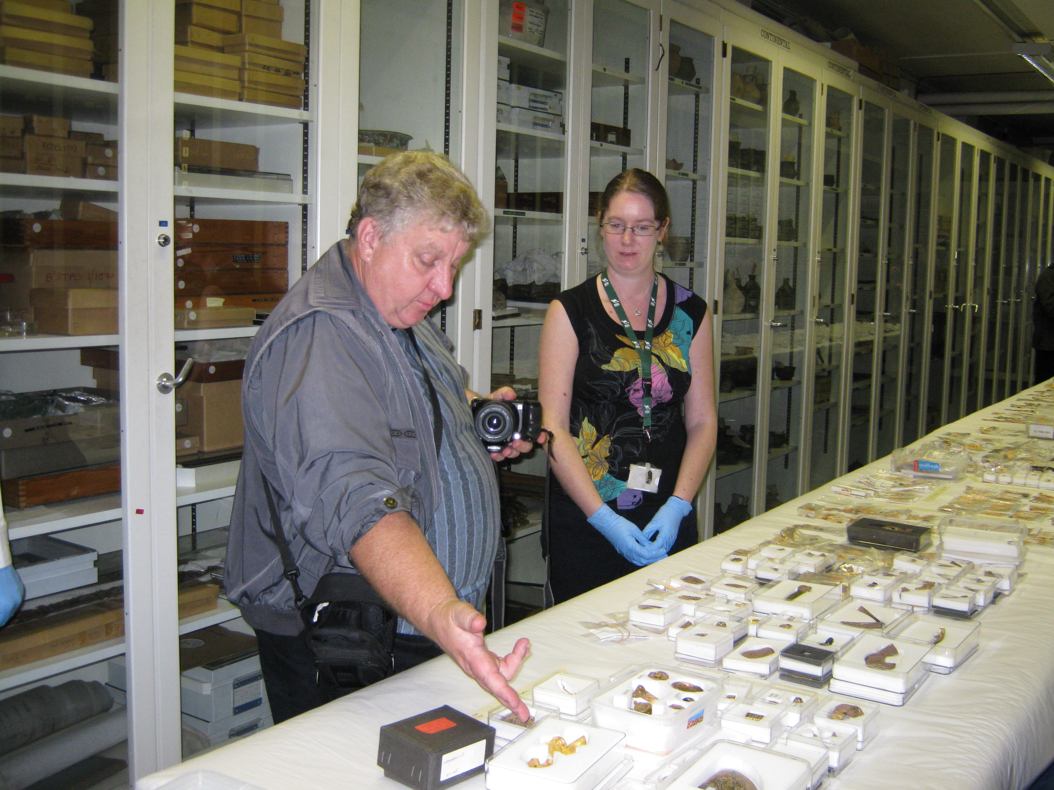 Terry Herbert (finder) and Caroline Lyons (Treasure Team)